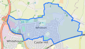 Open Street Map with area shaded blue for Whitton Ward, Ipswich This map of North West Ipswich was created from OpenStreetMap project data, collected by the community. This map may be incomplete, and may contain errors. Don't rely solely on it for navigation.